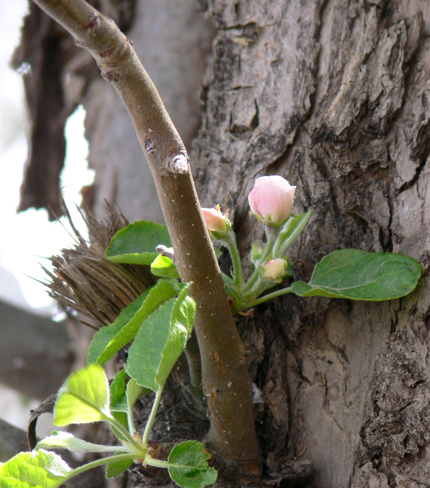 The picture was personally taken by me in May 2006. Wars 18:06, 11 February 2007 (UTC)